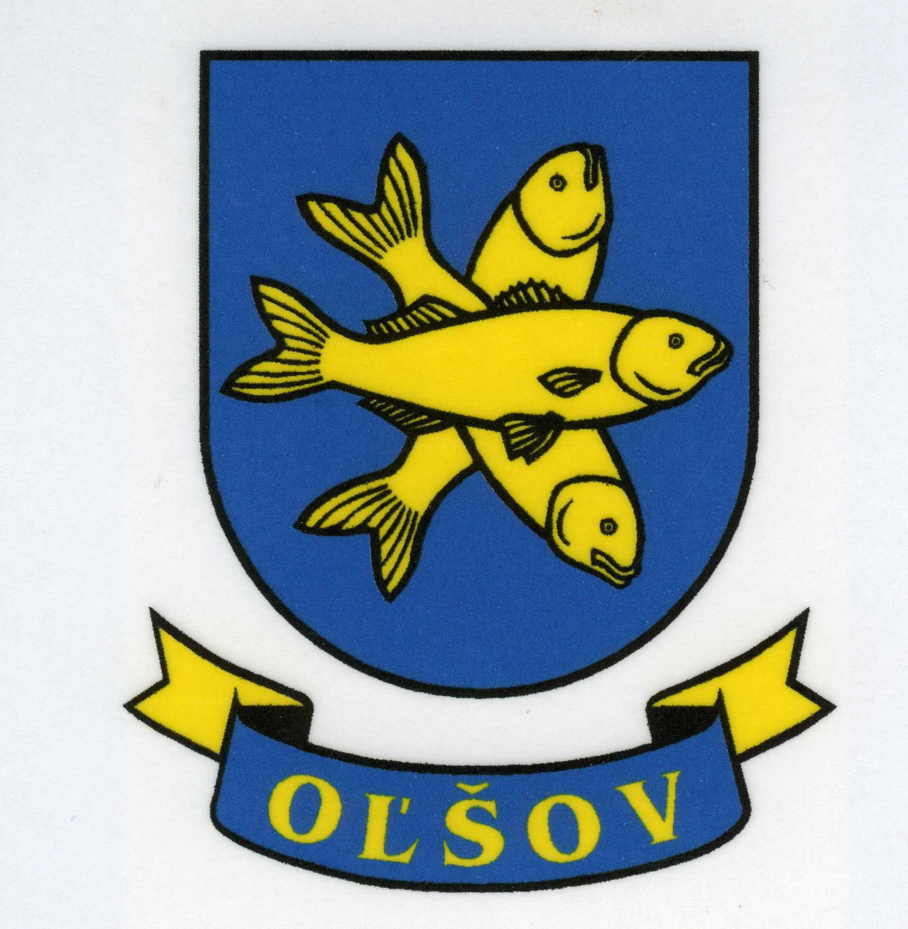 Crest of Oľšov